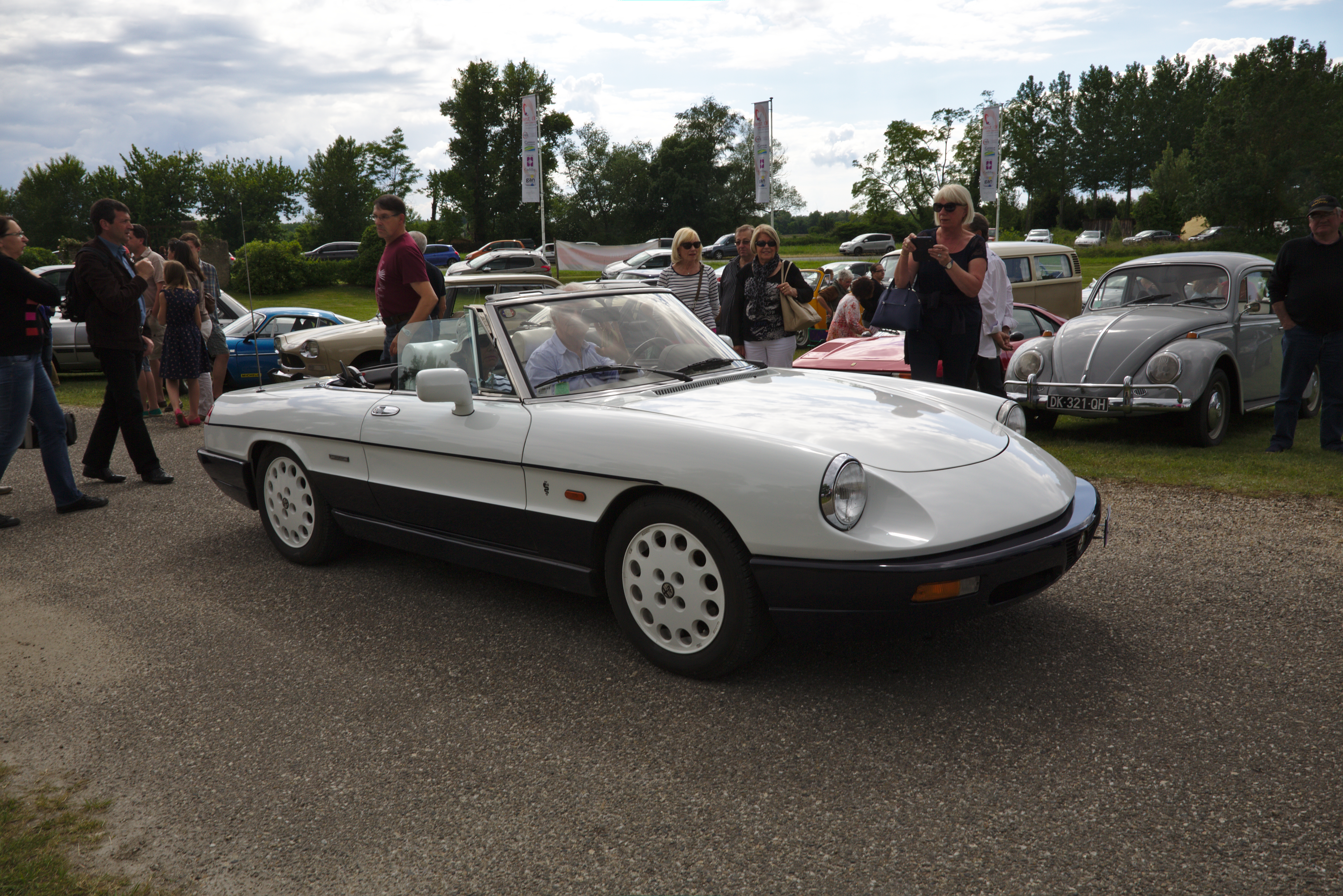 Alfa Romeo Spider